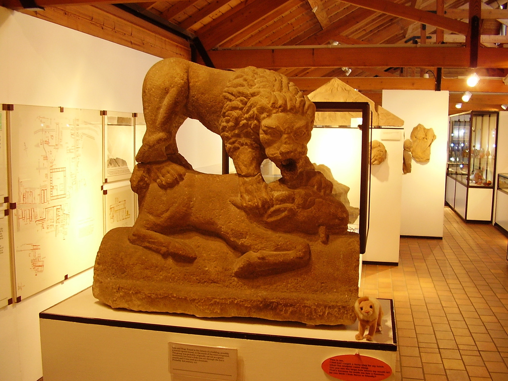 The Corbridge Lion is a Roman sandstone sculpture of a male lion crouching over a prone animal. It was originally a piece of decorative funerary ornamentation from a tomb. It was subsequently re-used as a fountainhead by passing a water pipe through its mouth. It was found in a water tank in 1907 at Corbridge, Northumberland, England. It is believed to date to the 2nd or 3rd centuries. It is now in the site museum.